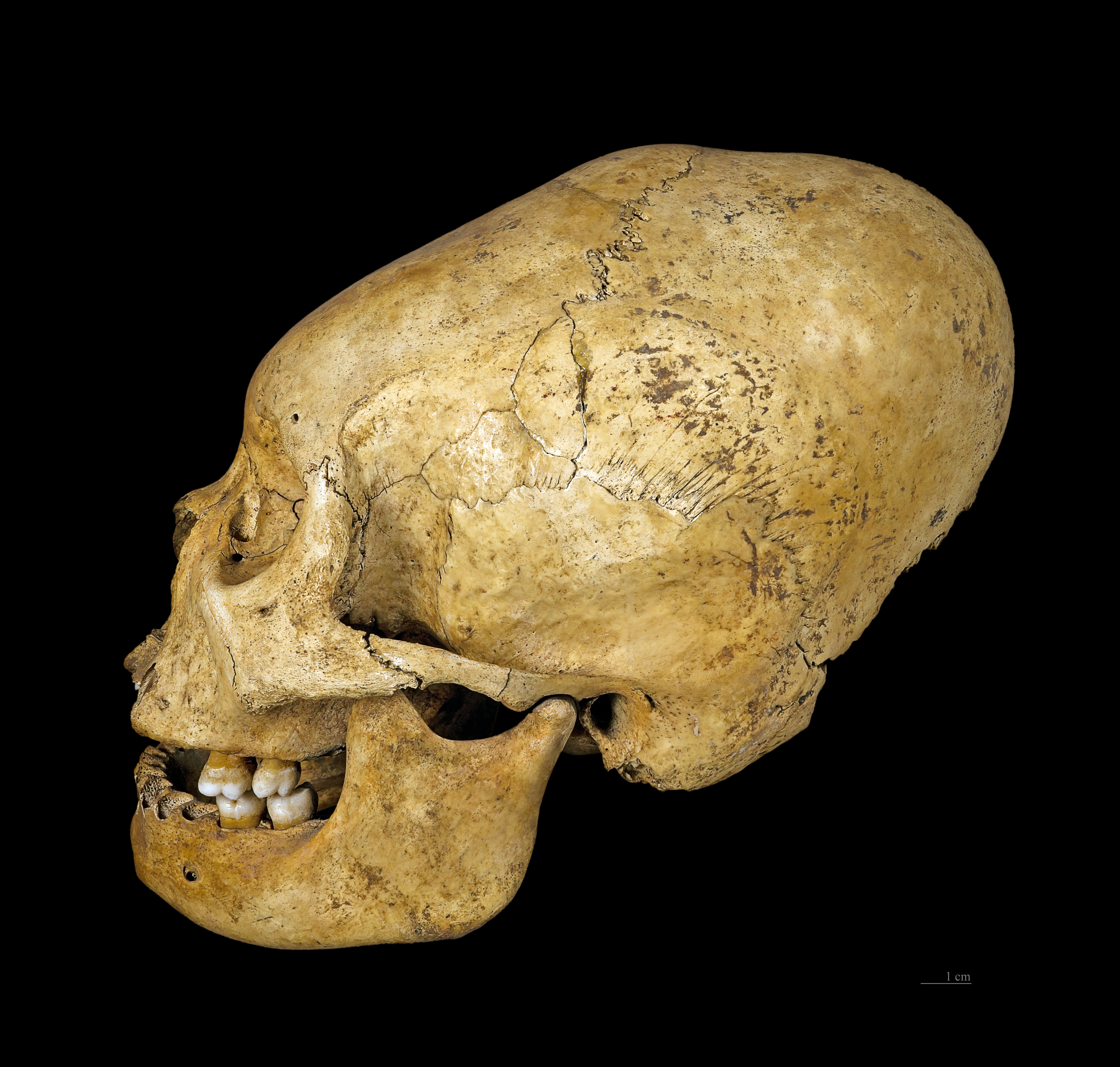 Homo sapiens sapiens - Deliberate deformity of the skull, "peruvian deformity " Proto-Nazca Culture (from 200 to 100 BC), Region of Nazca Peru.